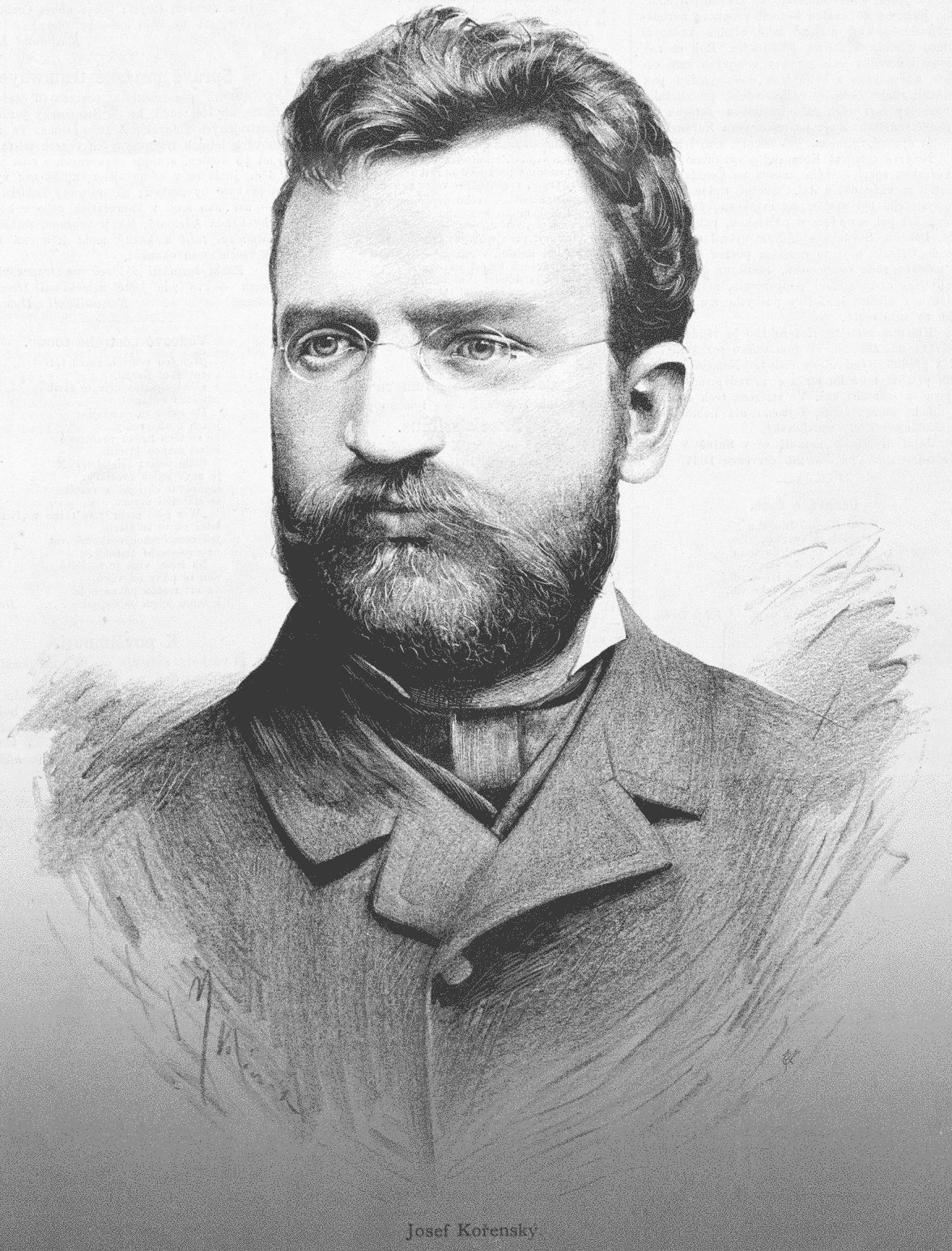 Portrait of Josef Kořenský, Czech traveller and collector.